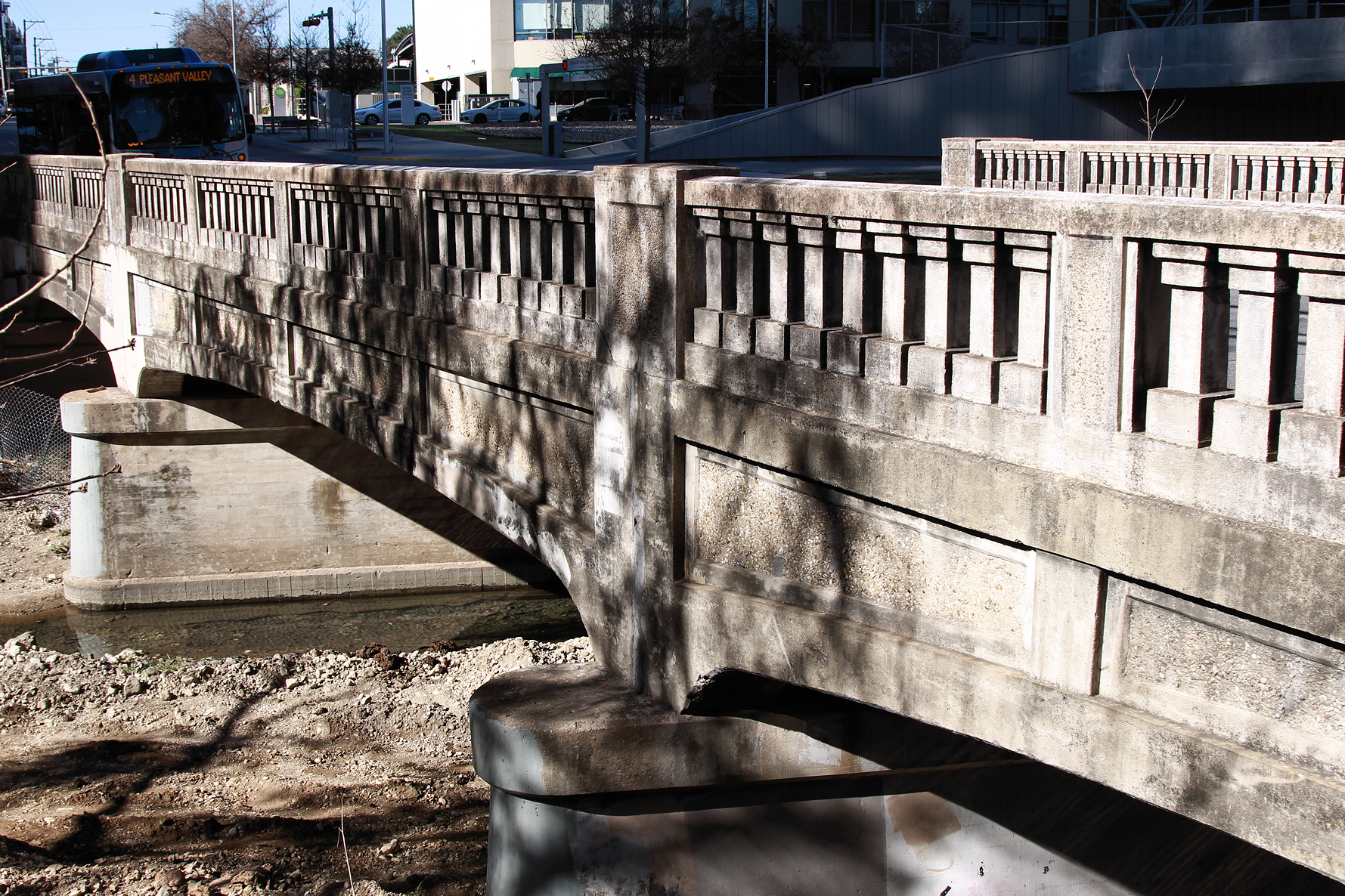 The south side of the West Fifth Street Bridge at Shoal Creek in Austin, Texas, United States looking west.